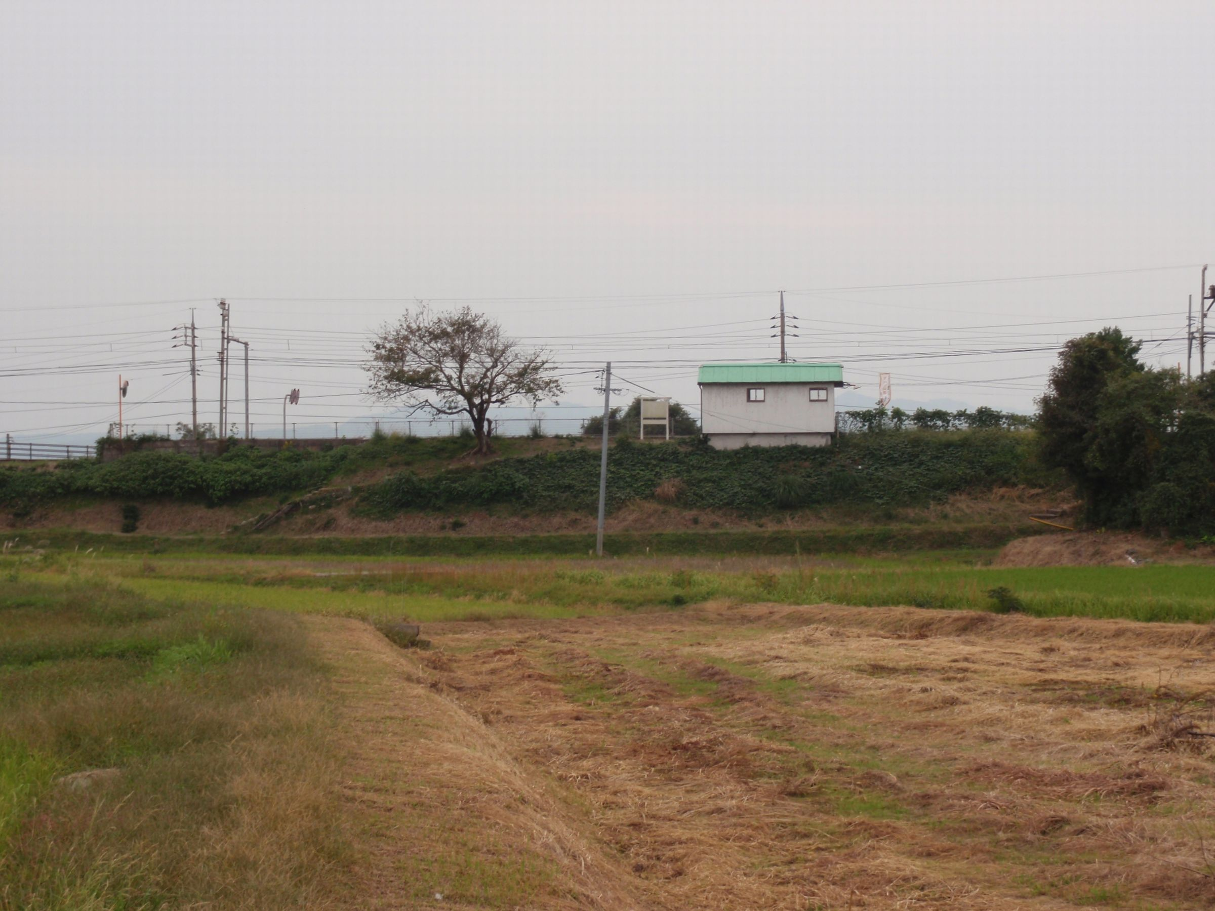 Inonada Station distant view